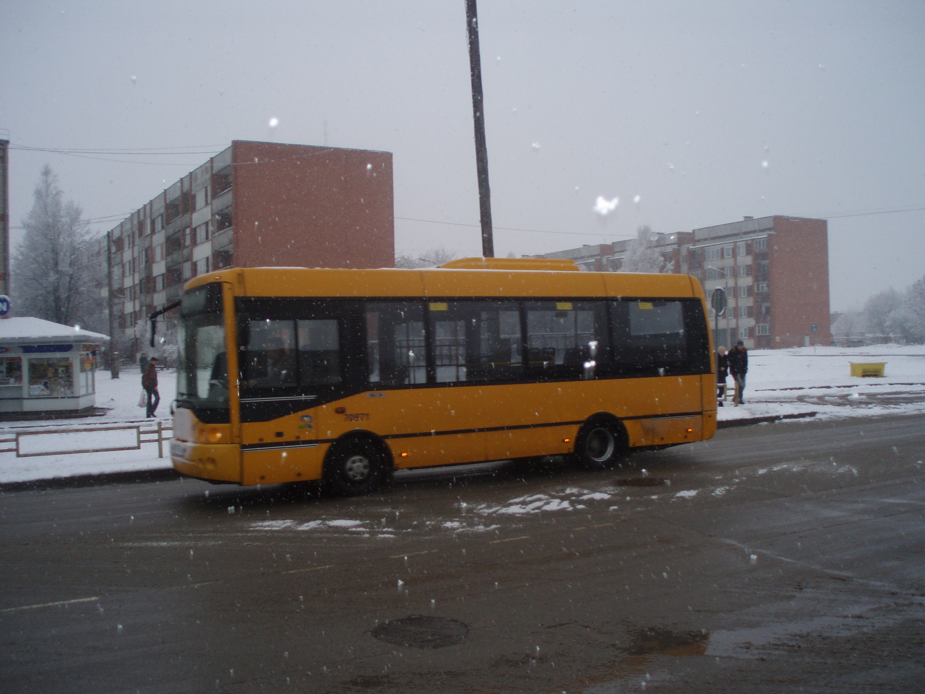 Ikarus E91 of Rēzeknes Satiksme in Rēzekne.